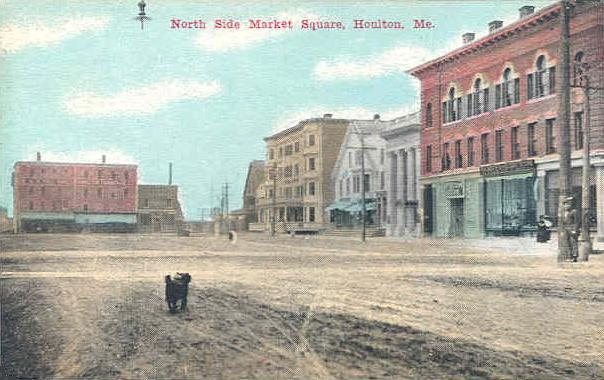 North Side Market Square, Houlton, Maine